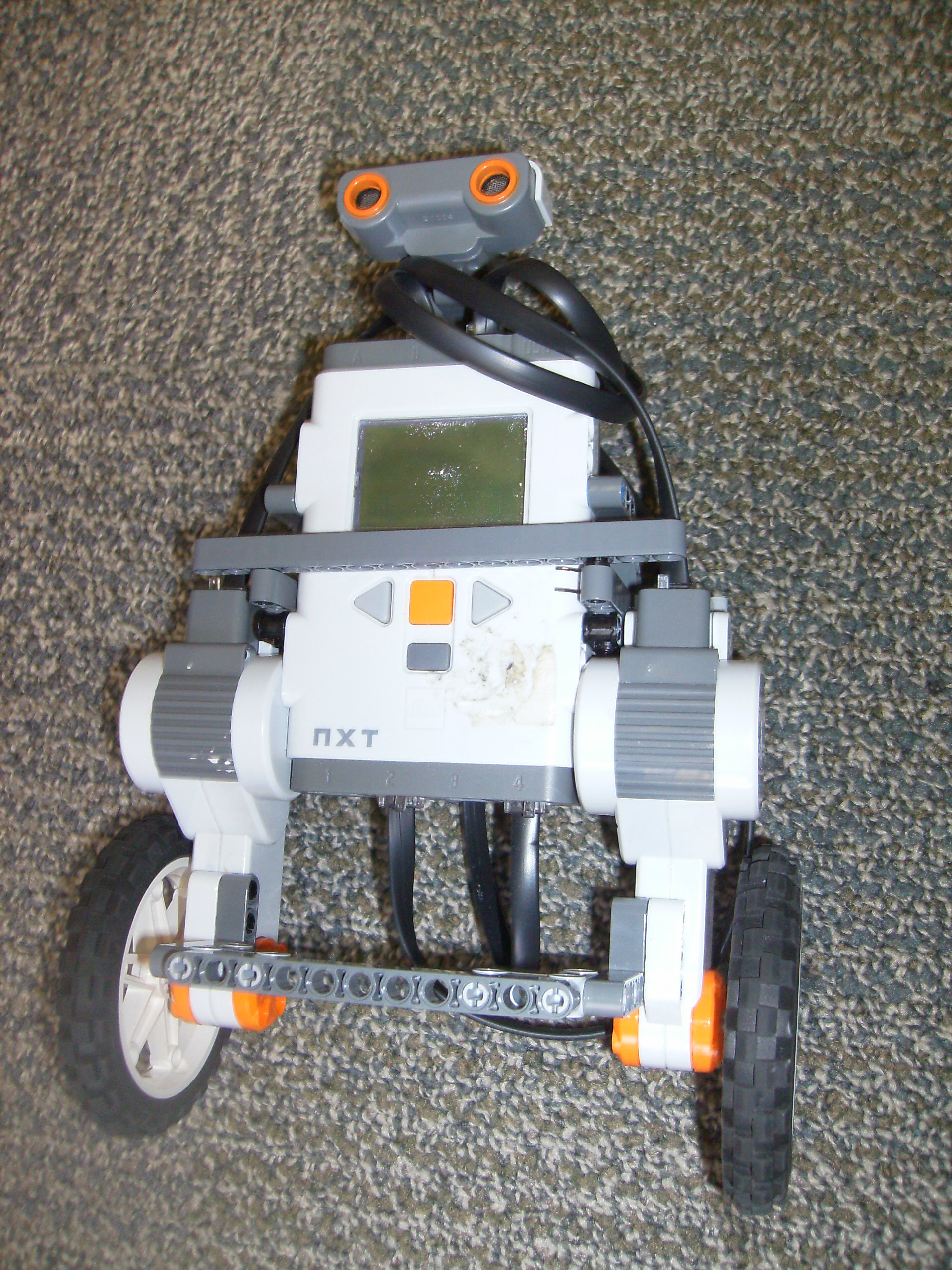 Lego NXT self-balancing robot